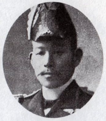 Yamaji Kazuyoshi is an Imperial Japanese Navy Vice Admiral